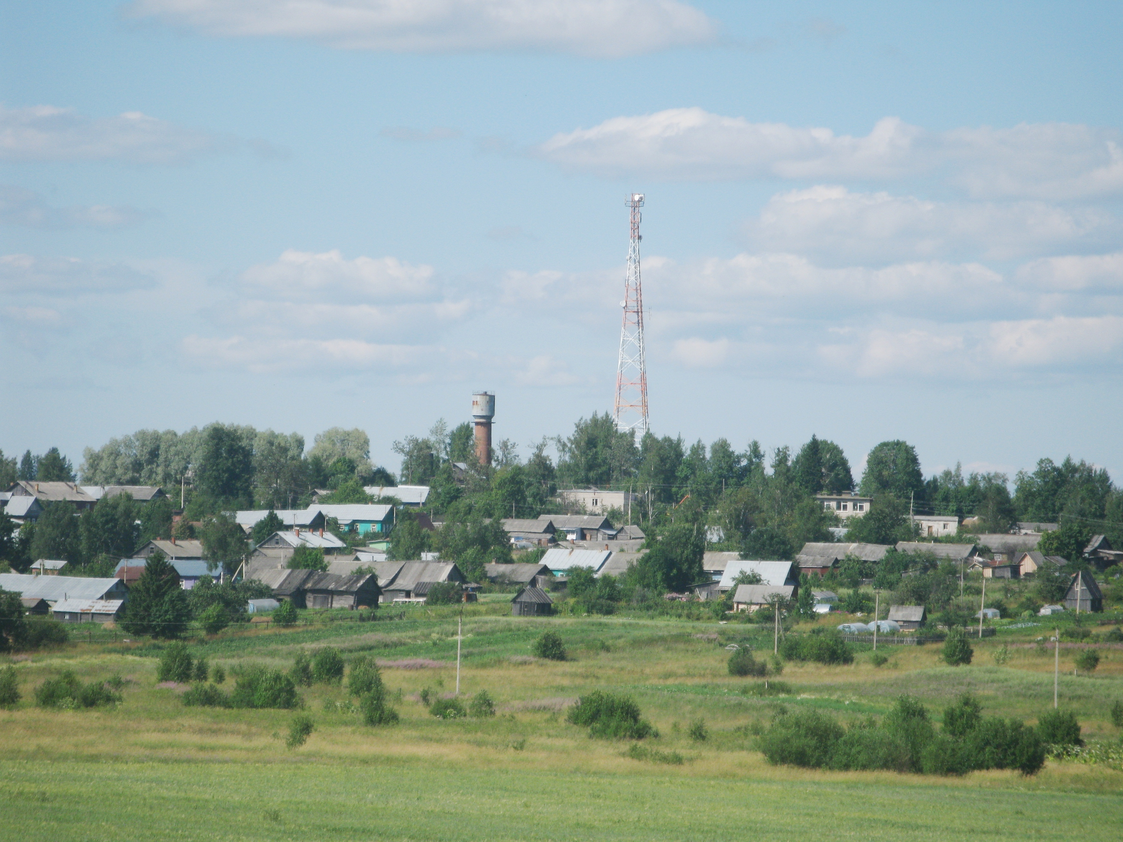 Voskresenskoe (Cherepovetsky district, Vologda oblast, Russia)